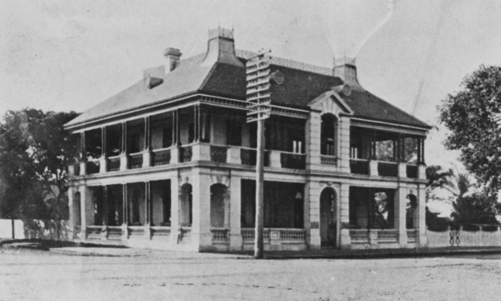 Commercial Banking Company of Sydney, Bundaberg, ca. 1910 View of the bank at the corner of Bourbong and Maryborough Streets.